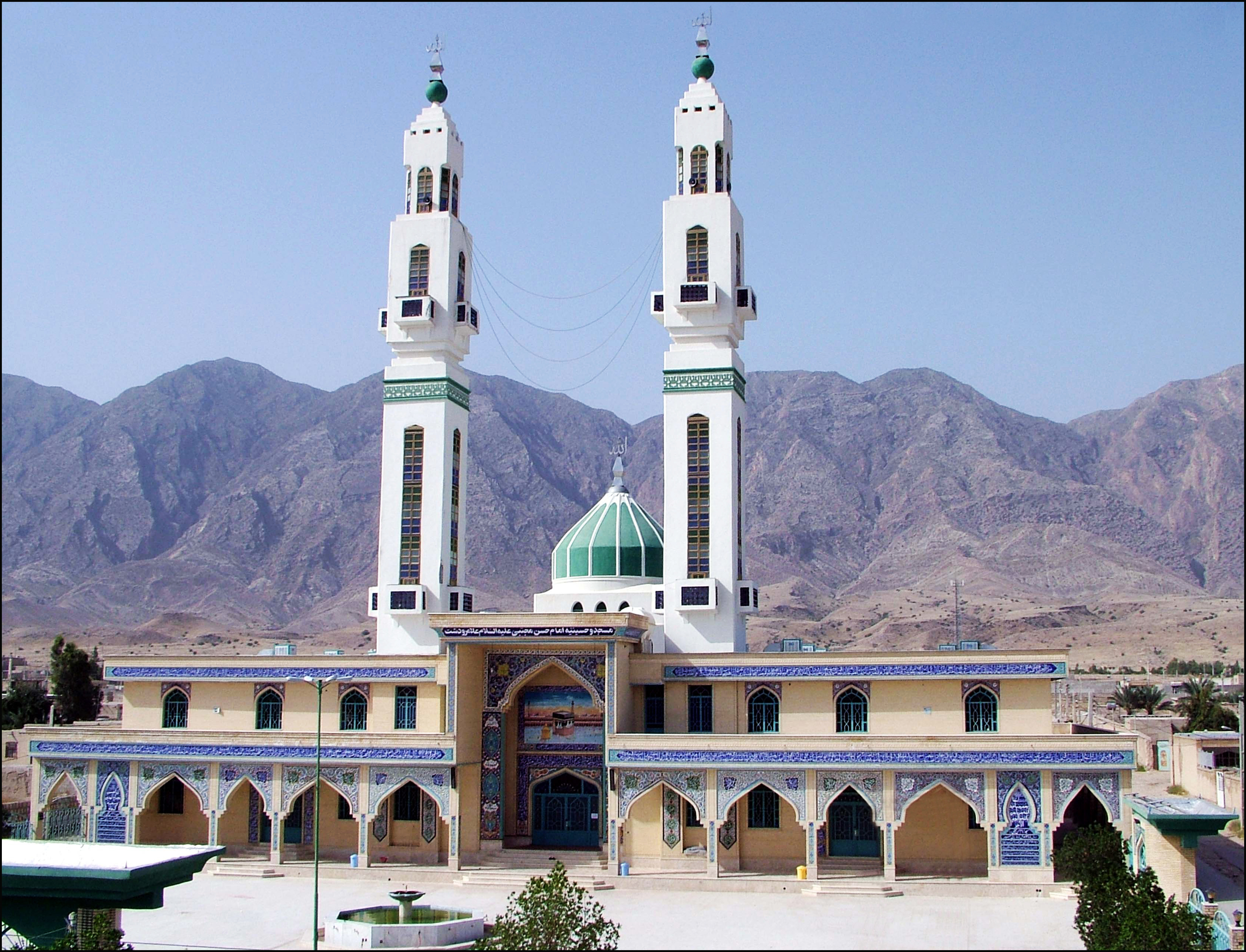 Emam Hasan Cultural & Religious Complex (Kuwaitiha), Alamarvdasht, south of Fars province, Iran